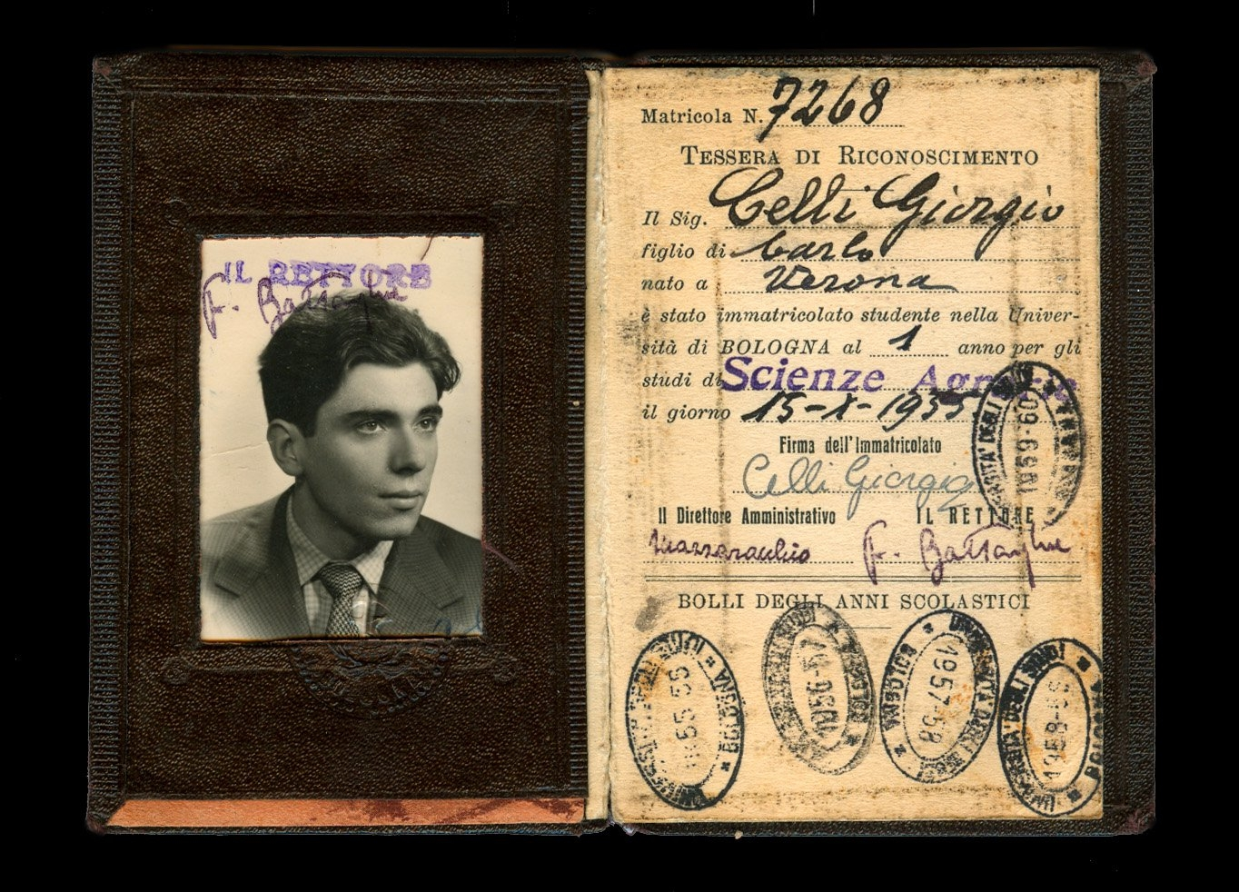 Student book Giorgio Celli Bologna University